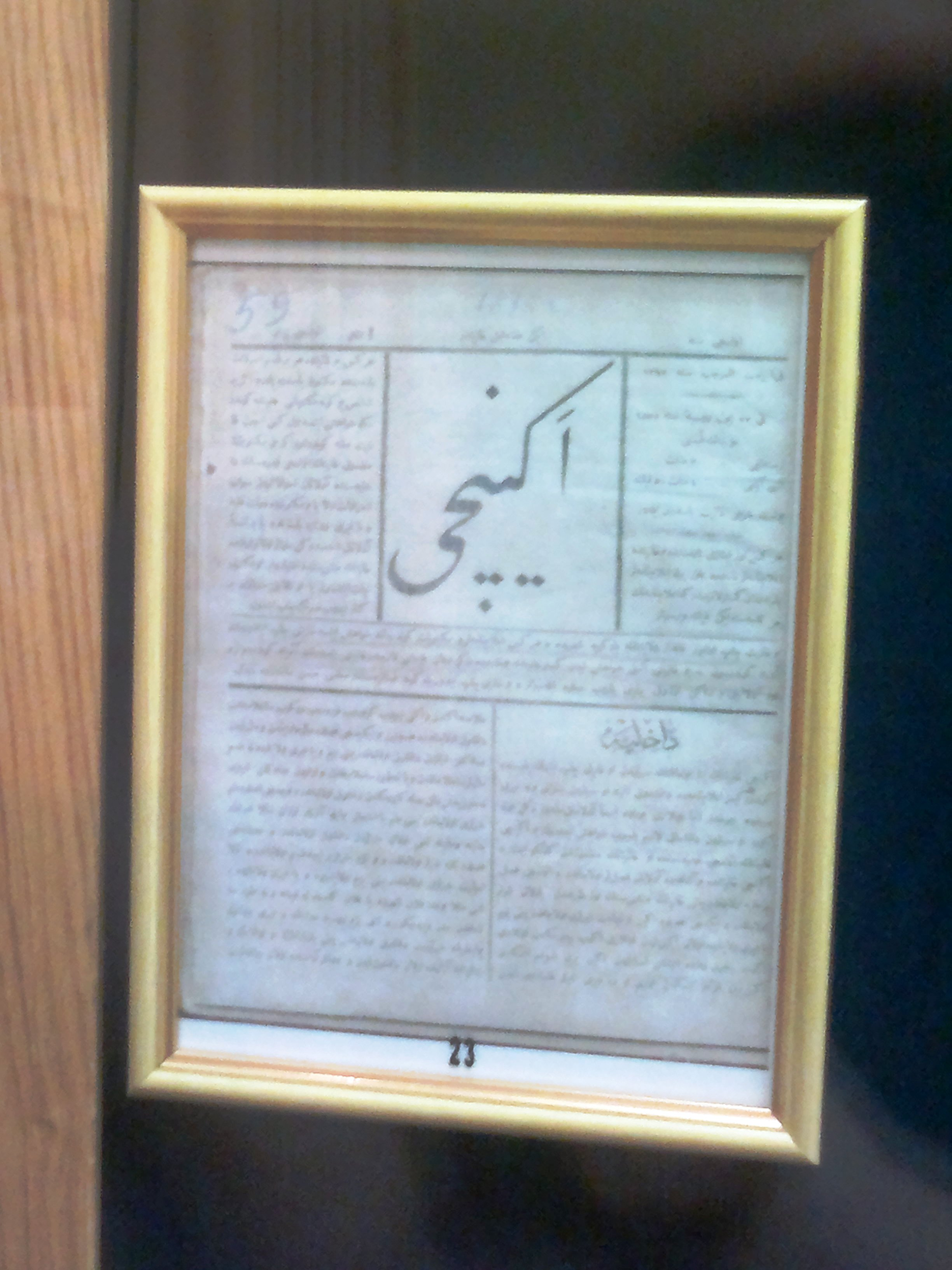 First eddition of "Ekinchi" newspaper (first newspaper in Azerbaijani newspaper) in Museum of the History of Azerbaijan